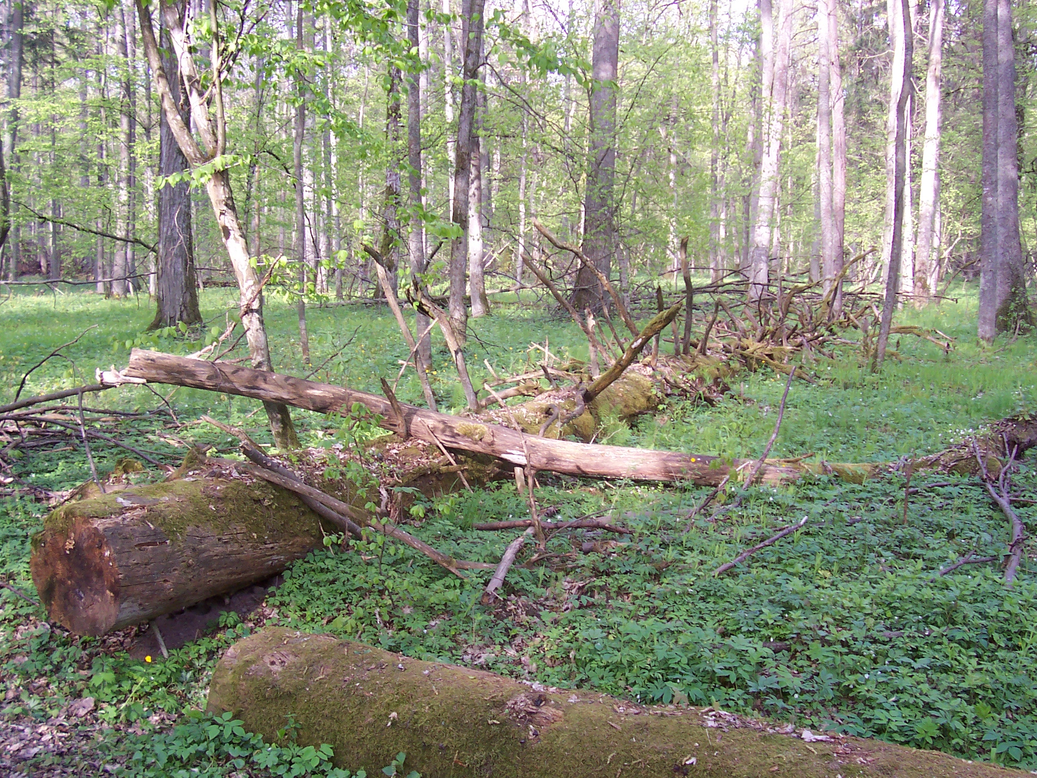 Białowieża Forest National Park